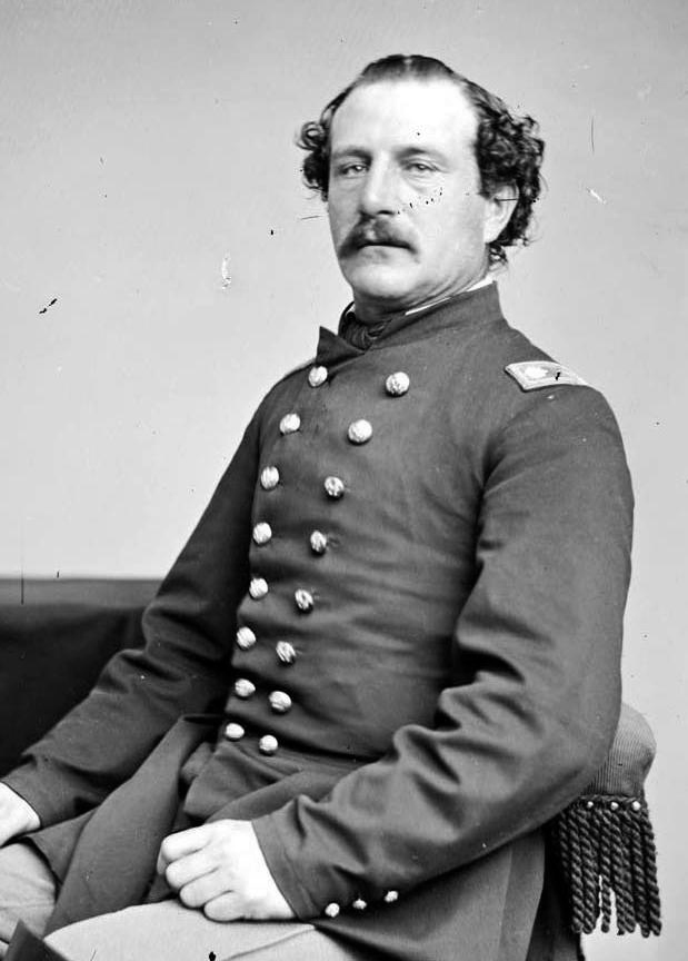 A photograph of NYPD police inspector Anthony J. Allaire while serving with the 133rd New York Volunteer Infantry Regiment during the American Civil War. Uploaded per request at WP:IFU.